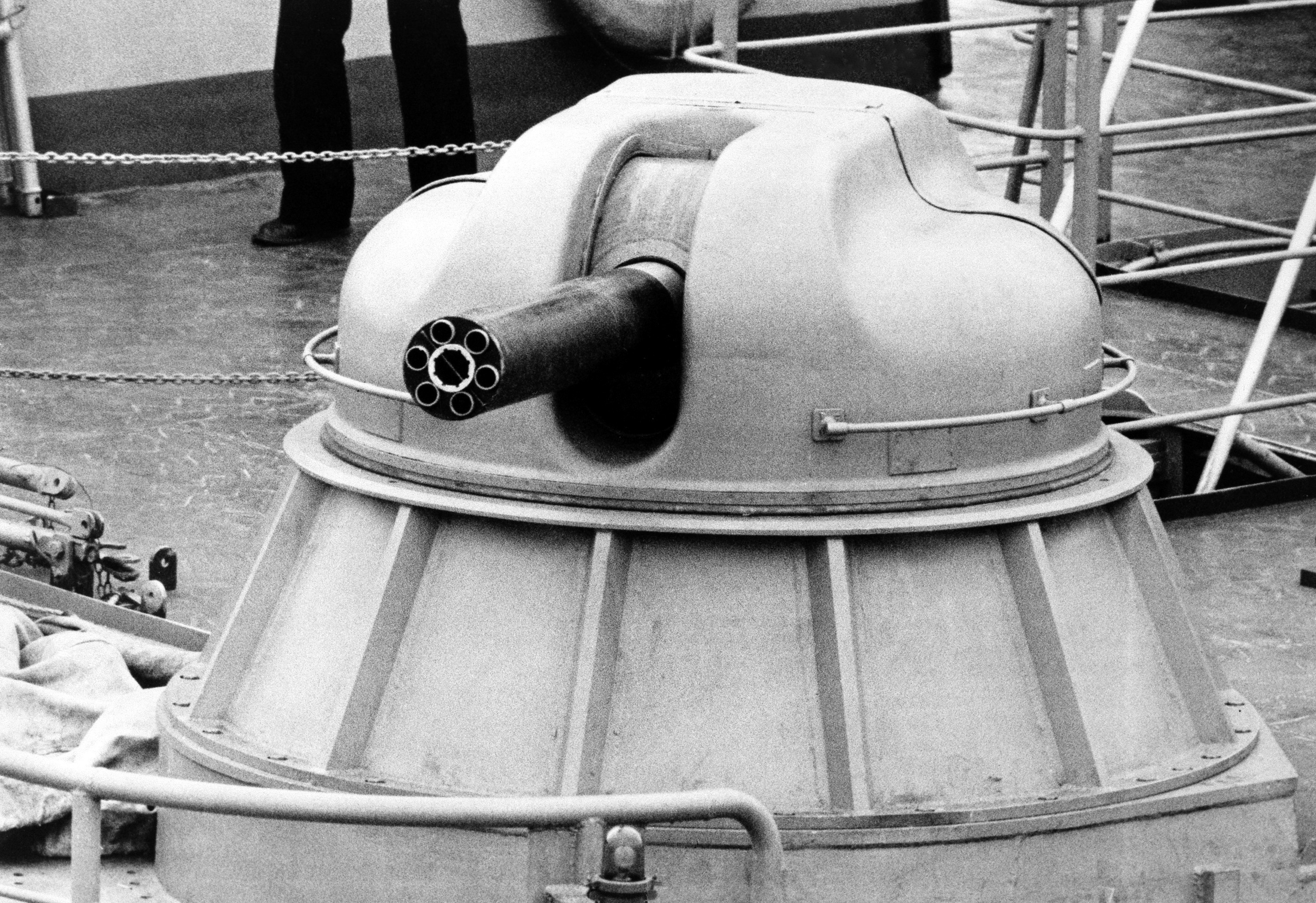 The AK-630 gatling-action six barrel 30 mm antiaircraft gun used aboard Soviet naval combatants.